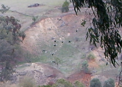 Eight White-winged Choughs in flight across the Buchan River valley at Buchan photographed before I was aware they were approaching. Posted here because of the trouble and good fortune I had identifying them as they are not often recorded in flight.